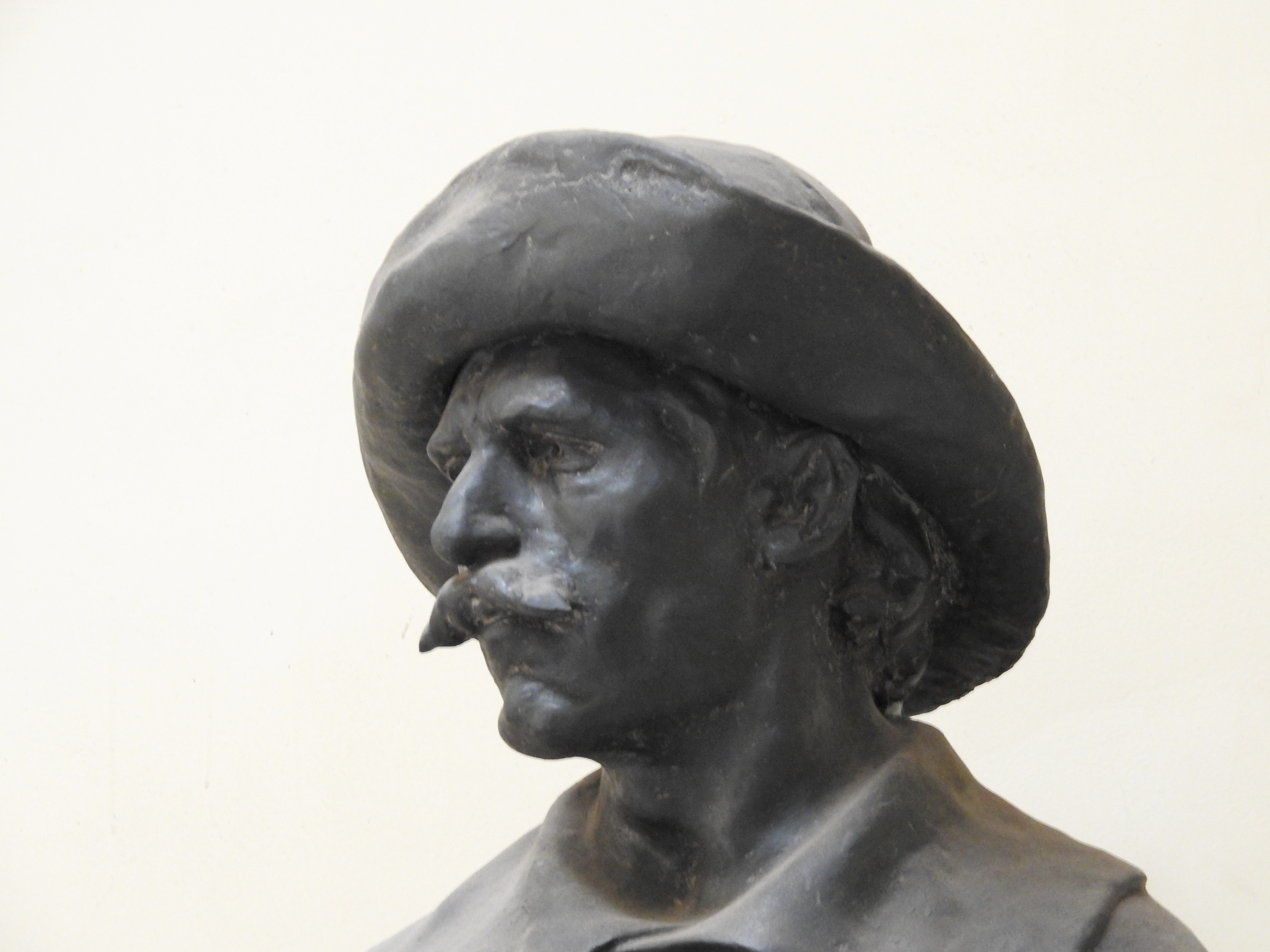 The Museu Paulista of the University of São Paulo (commonly known in São Paulo and all Brazil as Museu do Ipiranga) is a Brazilian history museum located near where Emperor Pedro I proclaimed the Brazilian independence on the banks of Ipiranga brook in the Southeast region of the city of São Paulo, then the "Caminho do Mar," or road to the seashore. It contains a huge collection of furniture, documents and historically relevant artwork, especially relating to the Brazilian Empire era.